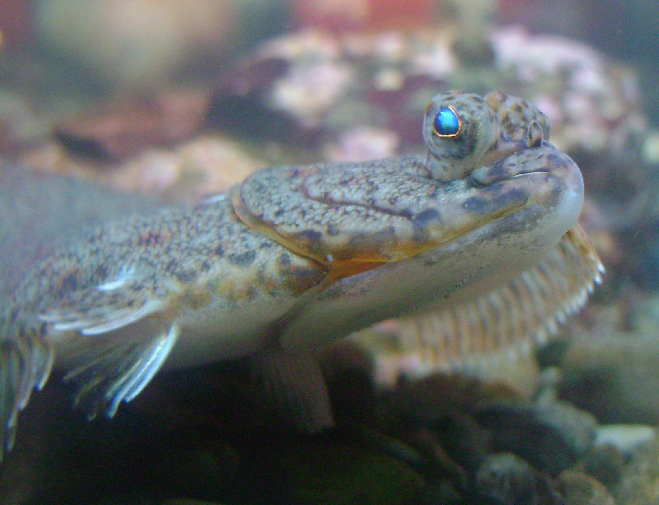 American plaice (Hippoglossoides platessoides), in the aquarium of the Saint-Lawrence exploration center, in Rivière-du-Loup, Québec